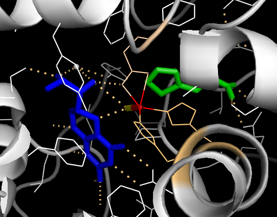 Active site model of PheOH from PDB 1KW0.